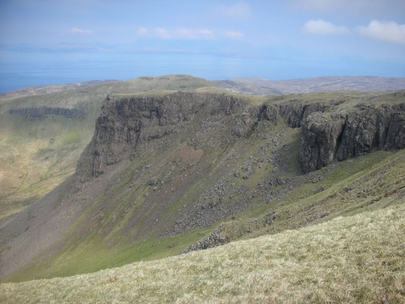 Rum - Orval from the SW